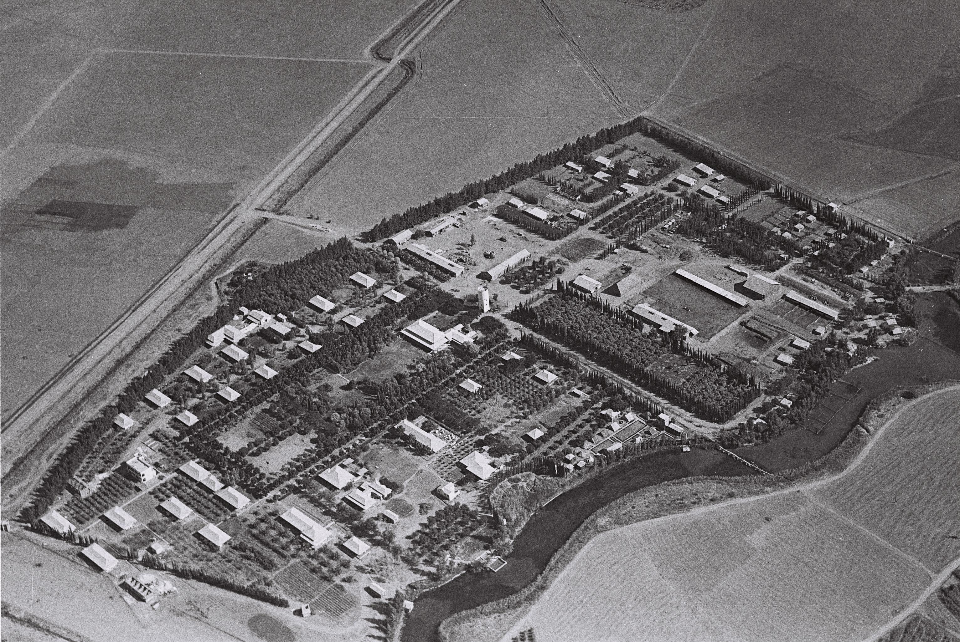 AN AERIAL VIEW OF KIBBUTZ TEL AMAL (NIR DAVID) IN THE BEIT SHEAN VALLEY. צילום אוויר של קיבוץ תל עמל (ניר דוד) בעמק בית שאן.